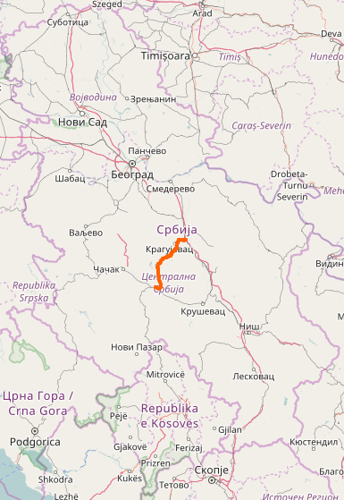 OpenStreetMap of State Road 24 in Serbia.